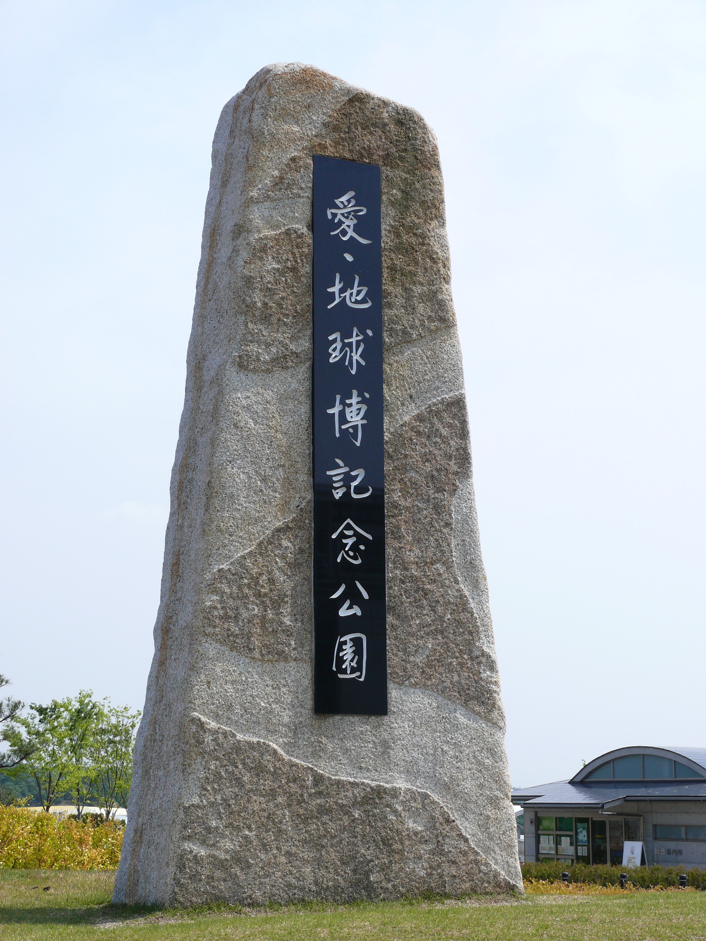 Ai･Chikyuhaku Kinen Koen (Morikoro Park).